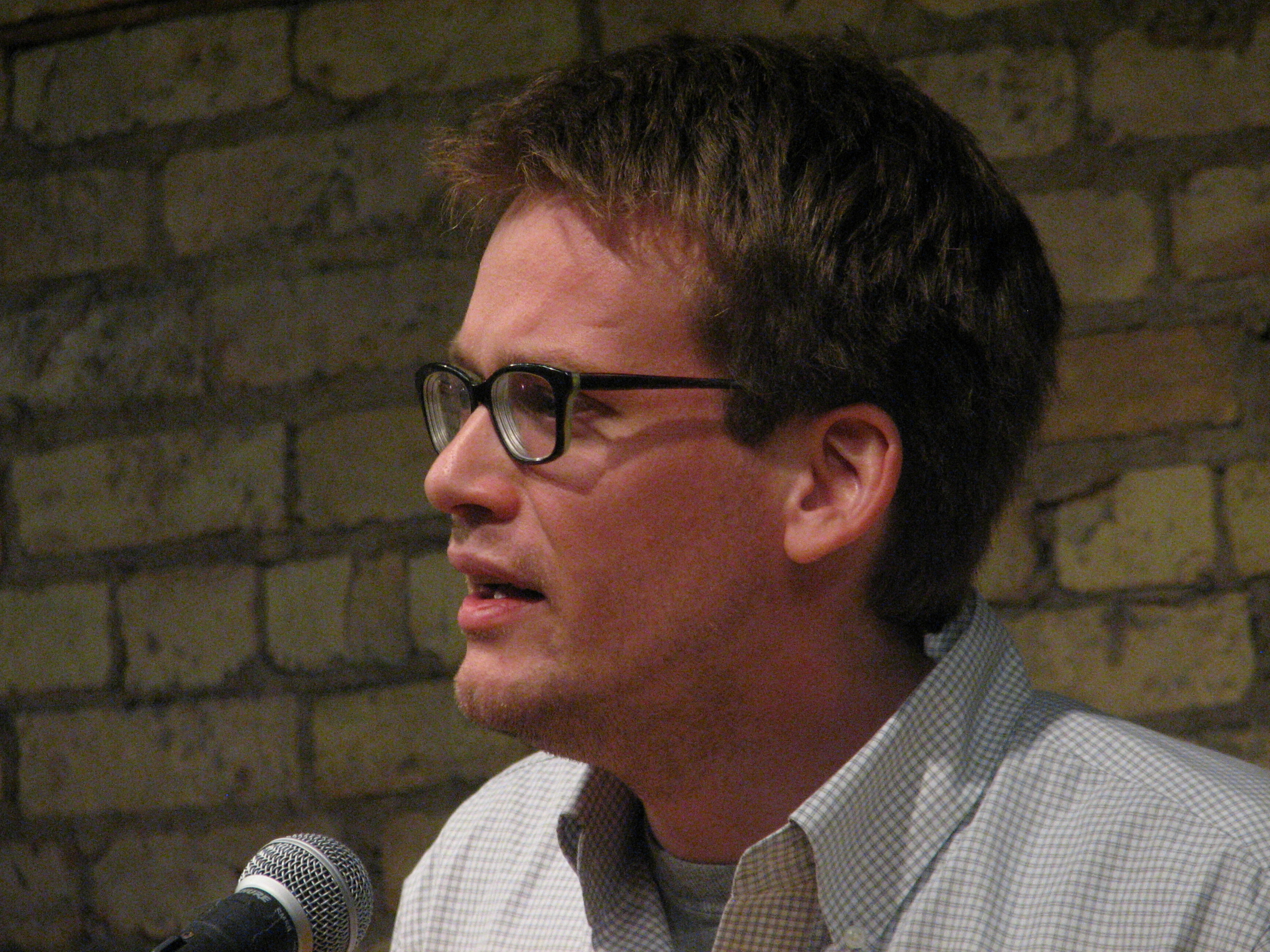 John Green speaking at the Loft Literary Center in Minneapolis